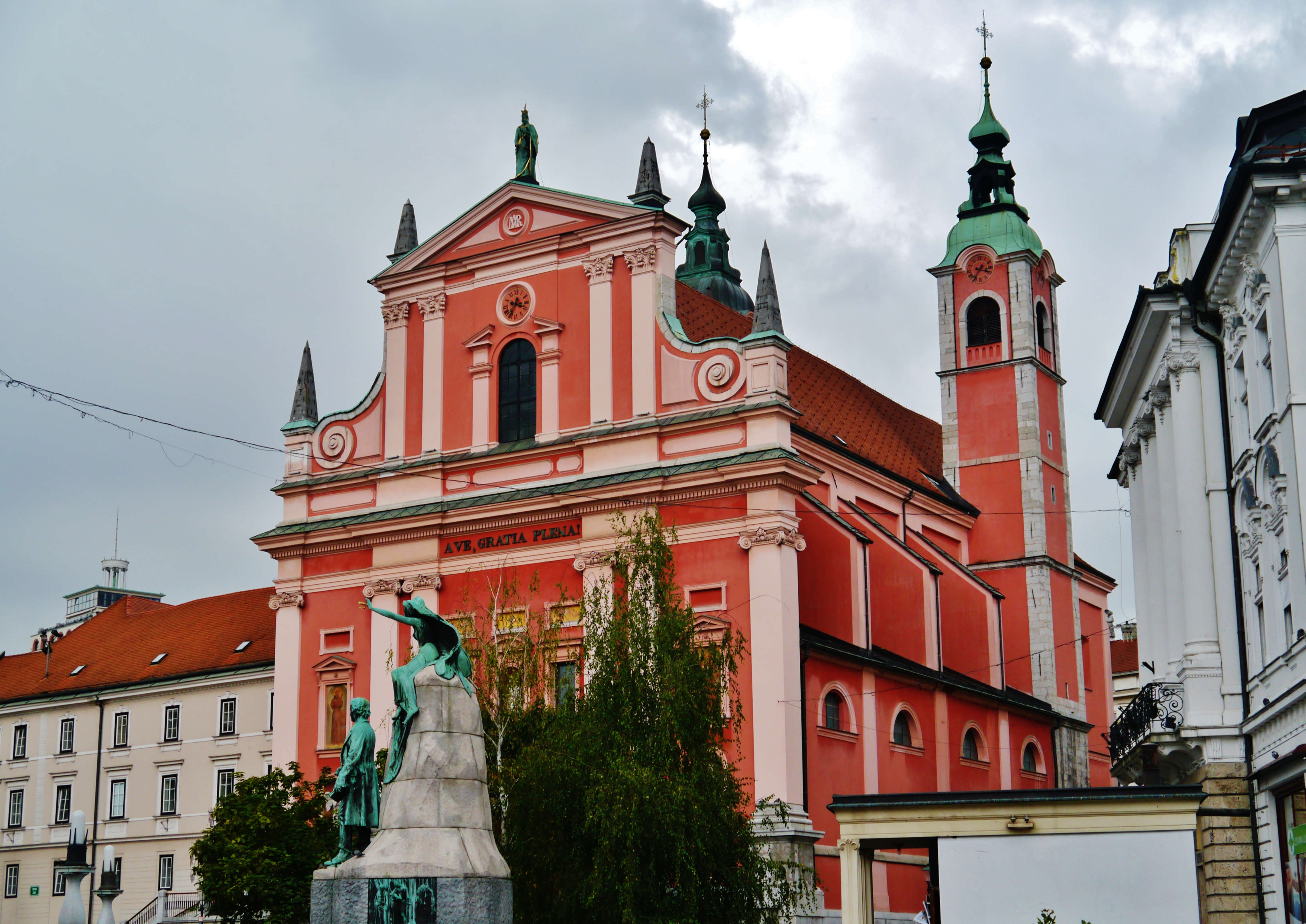 Franciscan Church, Ljubljana, Slovenia